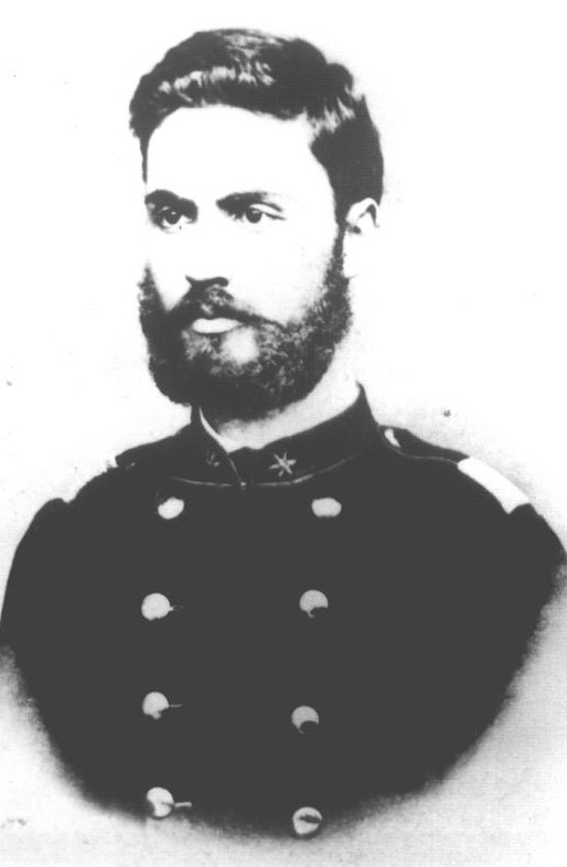 A portrait of the Bulgarian revolutioner Angel Kanchev